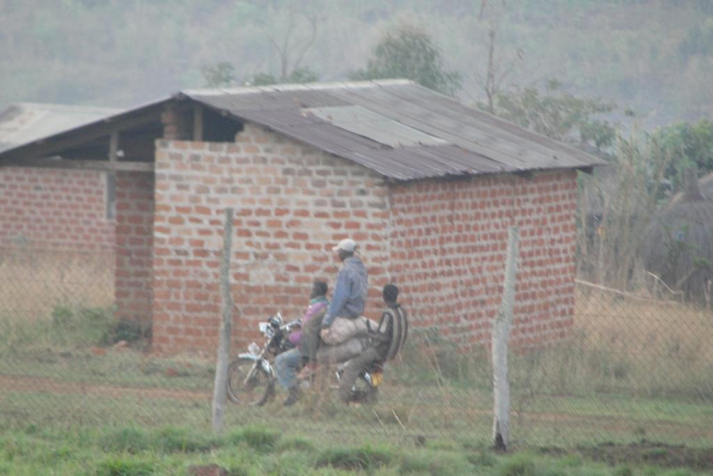 Gold is the main economic activity in Geita region, Tanzania . Apart from the big players like Geita Gold Mining company there is a lot of small scale mining activities. I stumbled upon these three ferrying their gold bearings rocks on the motorbike. In Geita these gold bearing rocks containing gold are called magwangala. They will later pound the rocks and use mercury to extract the gold. Kiswahili: Dhahabu ni shughuli kuu ya uchumi katika mkoa wa Geita, Tanzania. Kando na wachimbaji wakubwa kama kampuni ya Madini ya Geita Gold kuna shughuli nyingi za uchimbaji mdogo. Nilikutana na watatu hawa wakiwa wamebeba mawe ya dhahabu kwenye pikipiki. Huku Geita mawe haya ya dhahabu inaitwa magwangala. Baadaye watagonga mawe hayo na kutumia zebaki kutoa dhahabu. This is an image with the theme "Africa on the Move or Transport" from: Tanzania